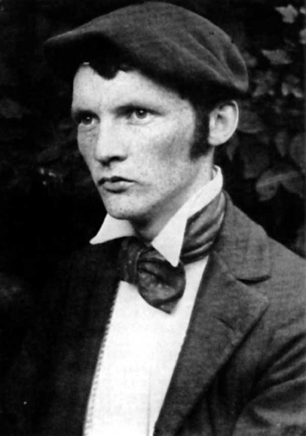 The german painter, illustrator, designer, architect, pedagogue and author Heinrich Vogeler (1872–1942) in Worpswede near Bremen in the year 1897.